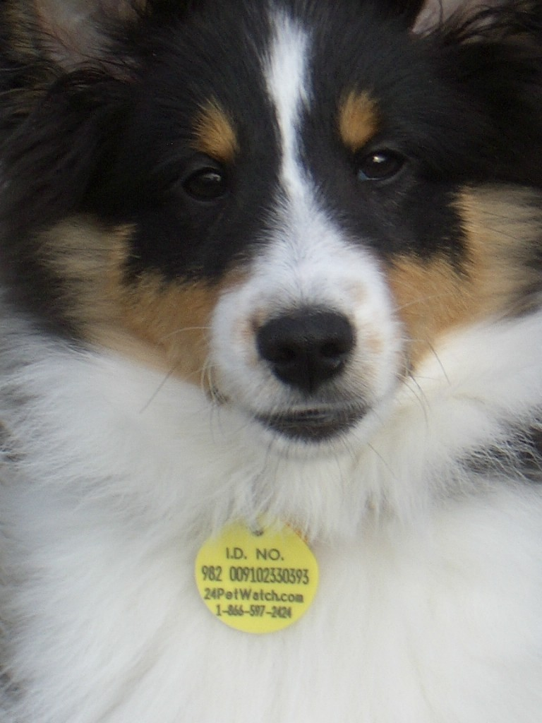 My dog Jack at 6 months